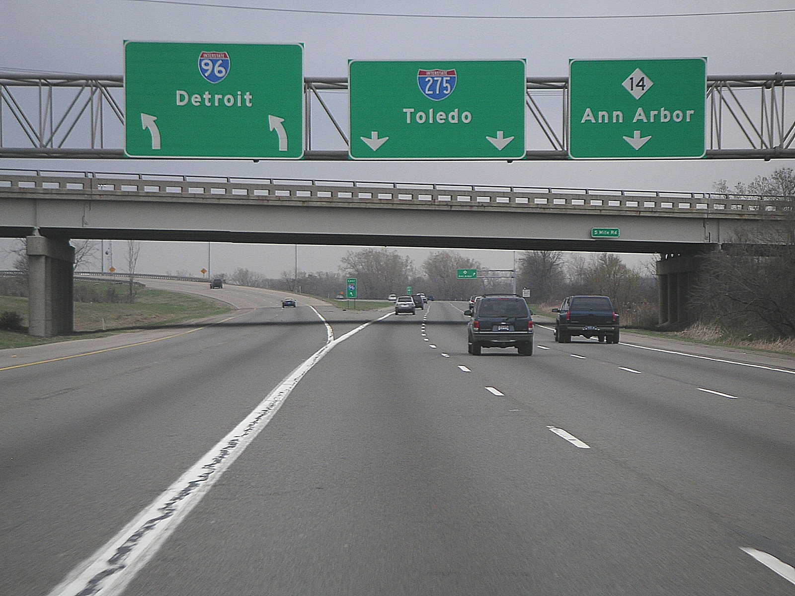 Interstate 275 southbound at the Interstate96 split and M-14 junction